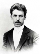 Photo of Jan Kříženecký in his young age.